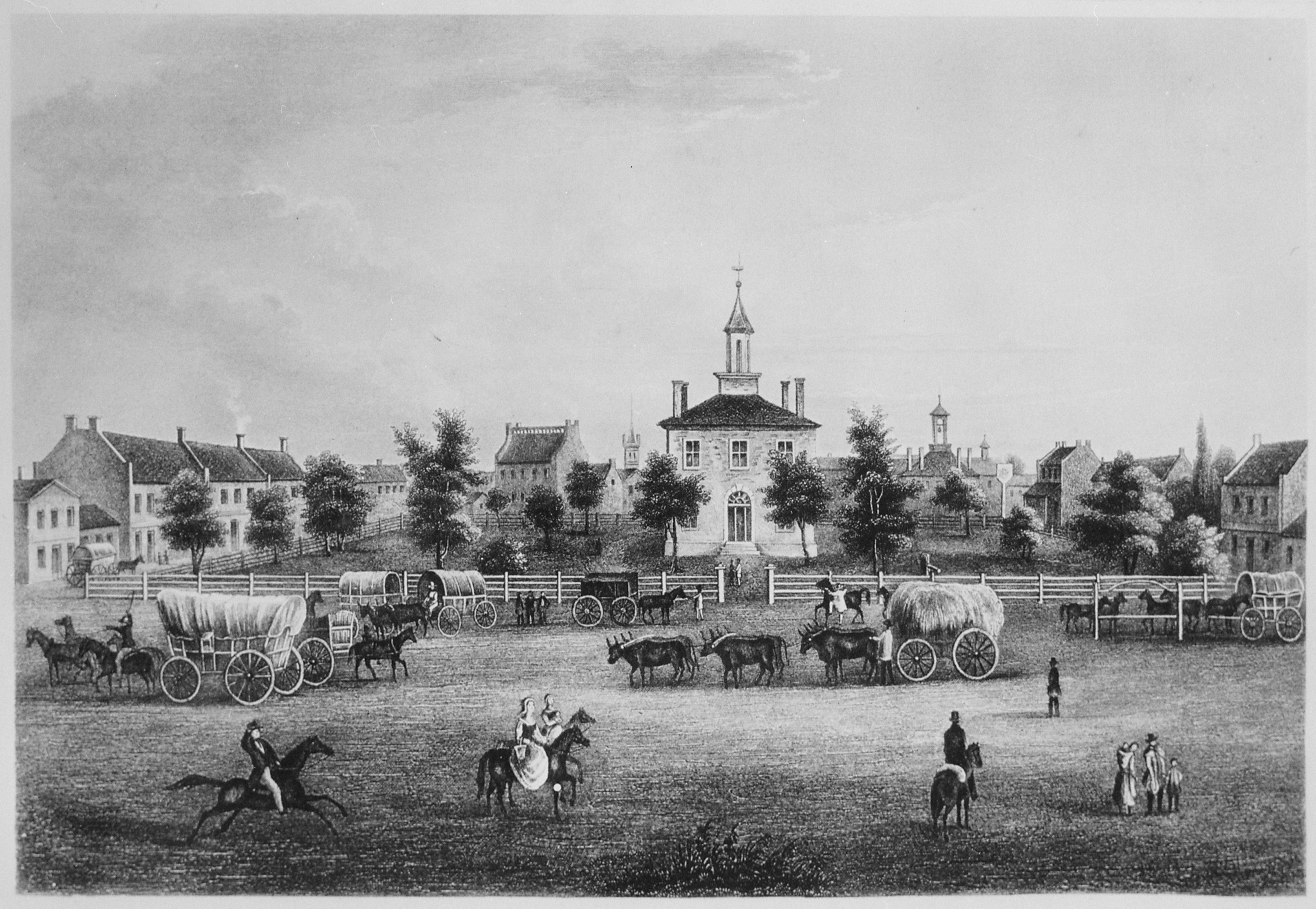 Scope and content: Engraving from The United States Illustrated by Charles A. Dana (New York 1855).